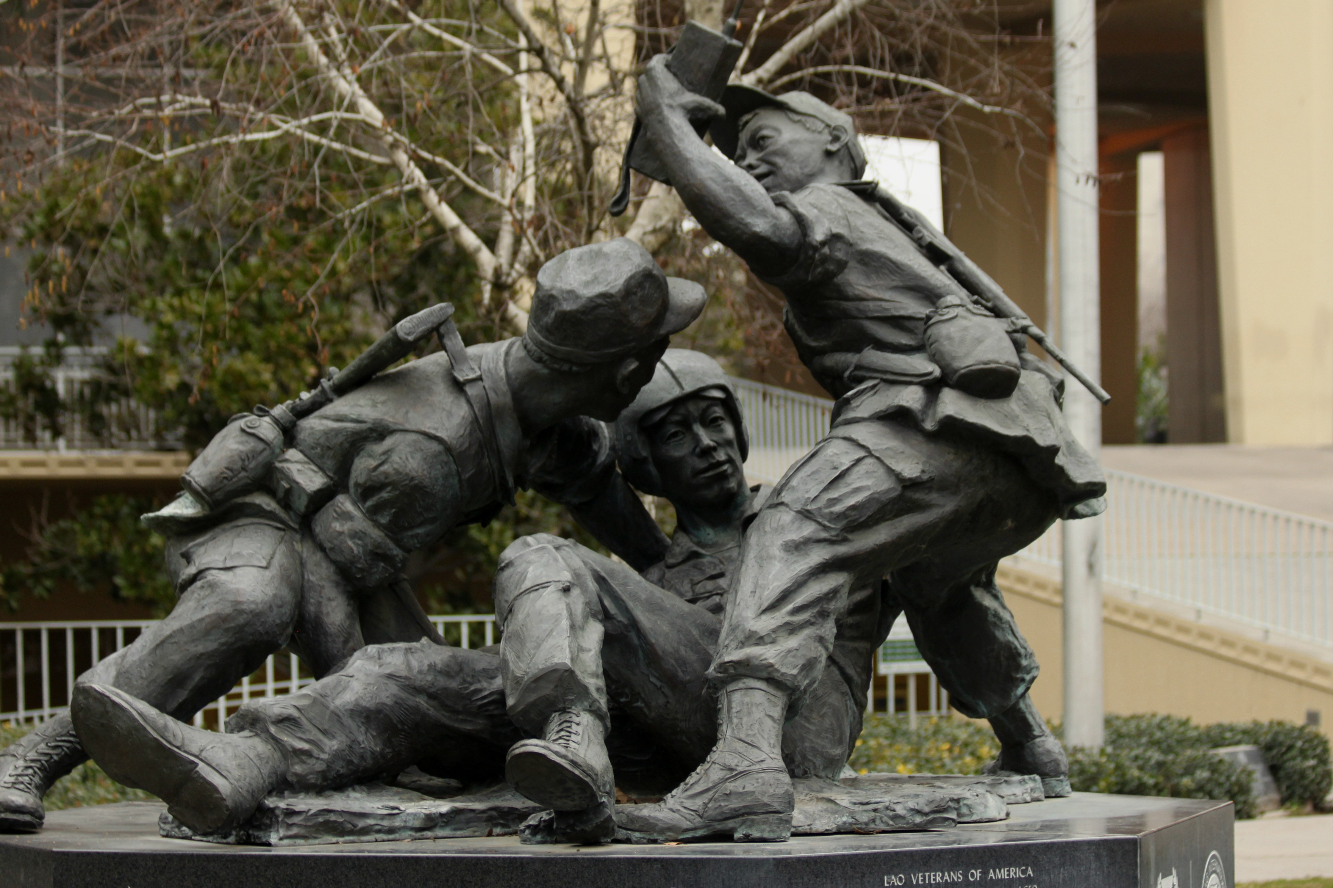 In front of Fresno County Court House ~ Down Town Fresno, California